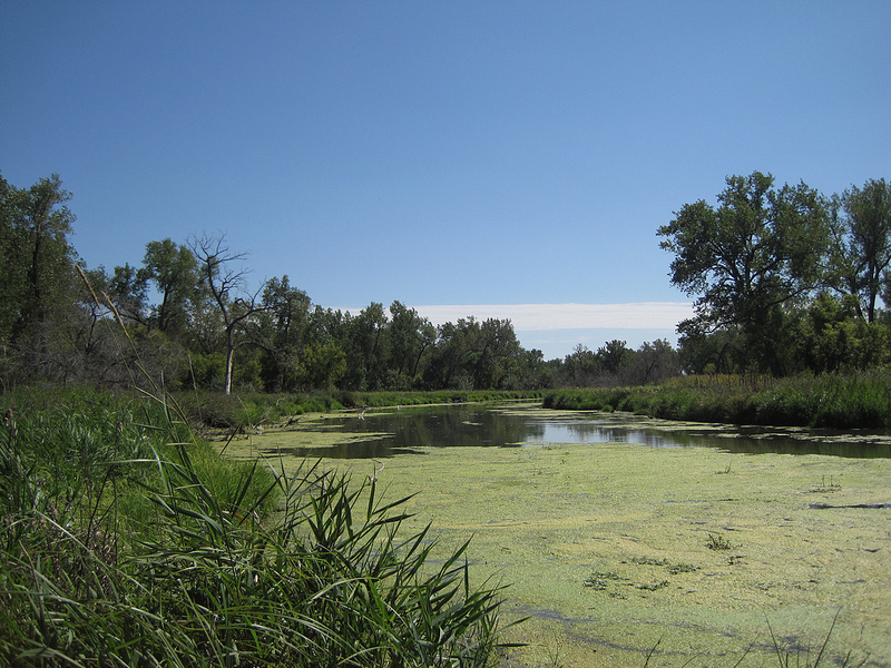 A shot of a large slough along the Loup River. Location: Prairie Wolf Wildlife Management Area near Genoa, Nebraska Credit: Lindsay Vivian / USFWS Photo Contest Entry #43